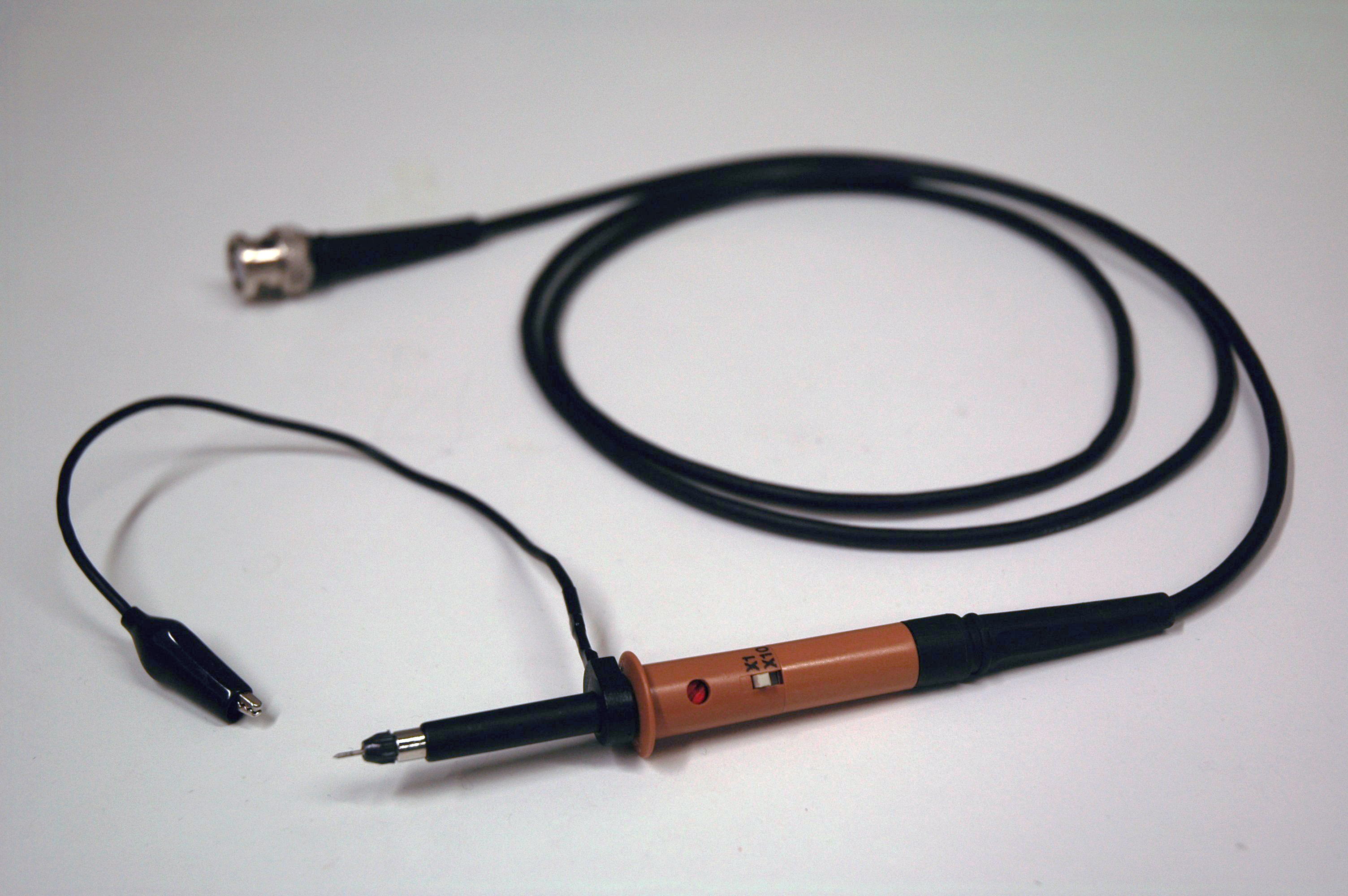 Passive test probe